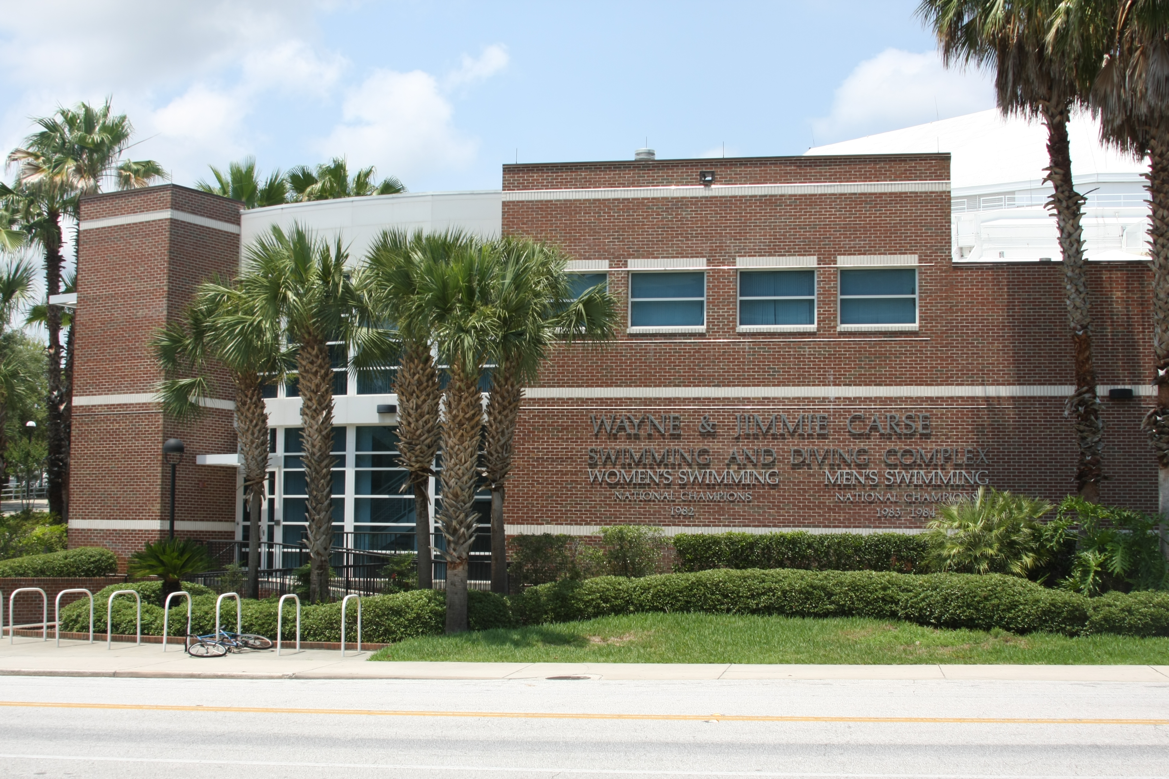 Wayne and Jimmie Carse Swimming and Diving Complex at the University of Florida